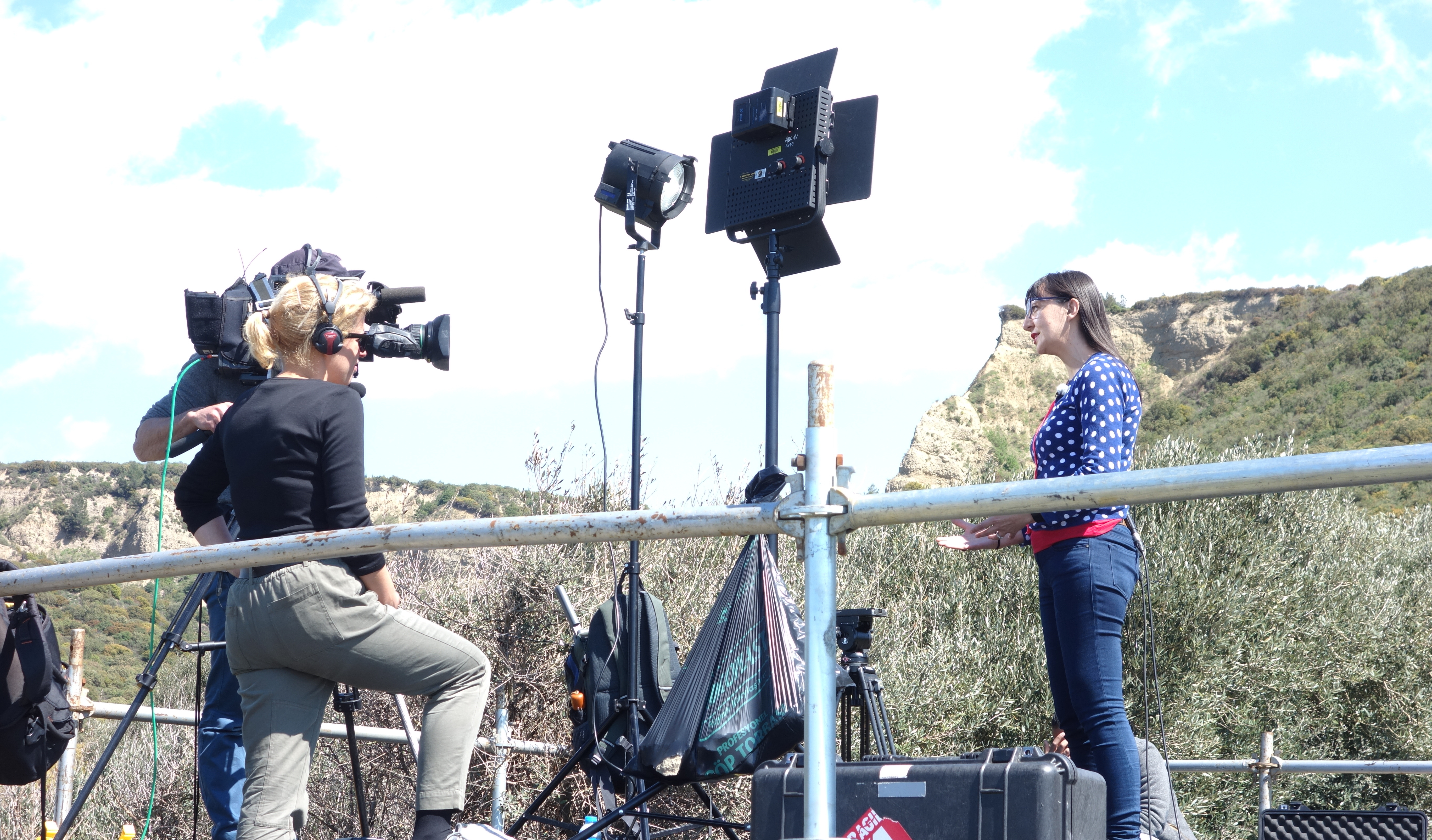 Serpil Senelmis reporting live to Australia from Gallipoli, Turkey on the eve of the Dawn Service to commemorate 100 years since the ANZAC Landings.